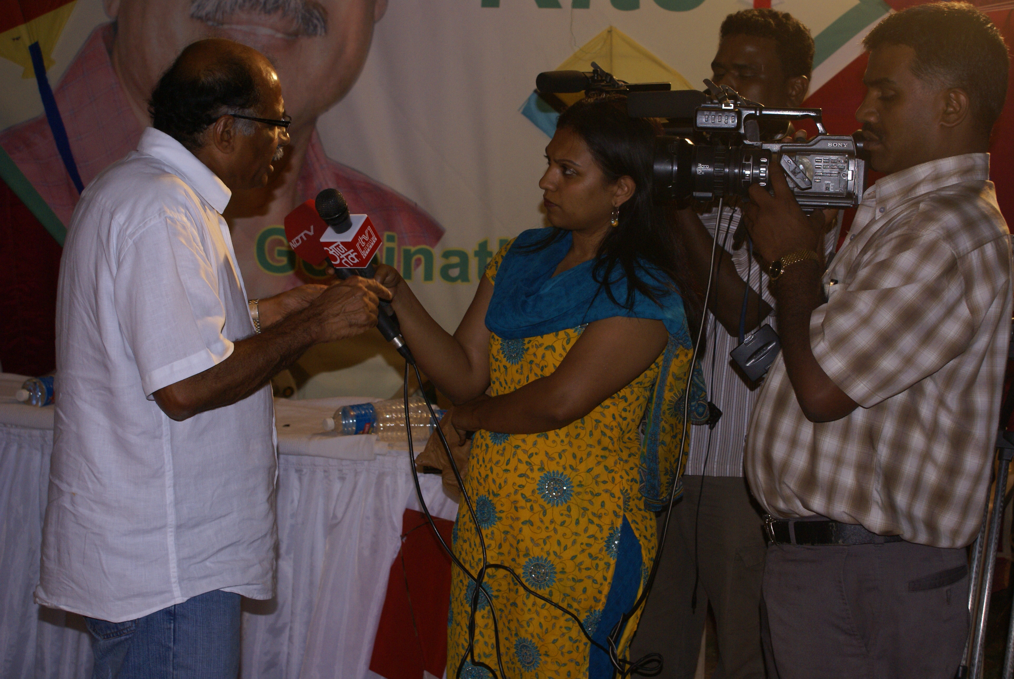 And you still have time for a one-on-one with a national TV channel.